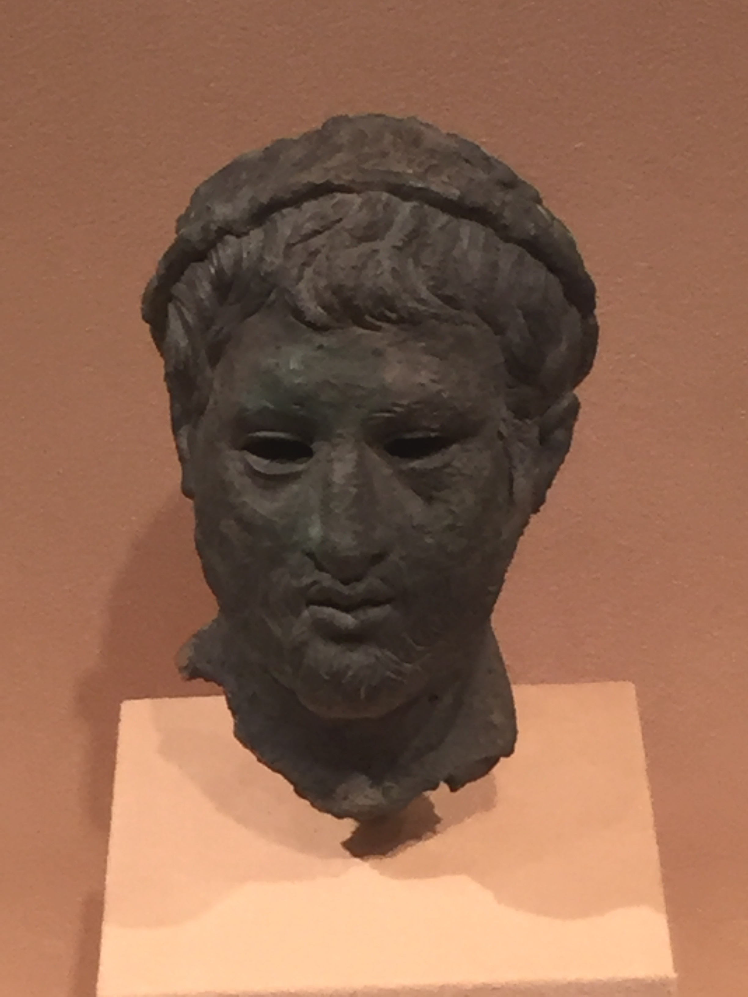 Description of this ancient Greek copper-alloy bust provided by the Virginia Museum of Fine Arts, Richmond: "Greek (Macedon, Hellenistic period). Portrait head of a man, c. 200 BC. Copper alloy. Adolph D. and Wilkins C. Williams Fund, 2000.82. This portrait head was once part of a statue measuring about thirty-six inches high. The now-missing eyes were made from another material, such as glass, and the lips may well have been inlaid with gilding or copper alloy. Separately attached bronze leaves once adorned the wreath (a fragment of one still survives). Comparison with coins suggests that this may be a portrait of a ranking Macedonian leader, perhaps even Philip V (reigned 220-179 BC)."